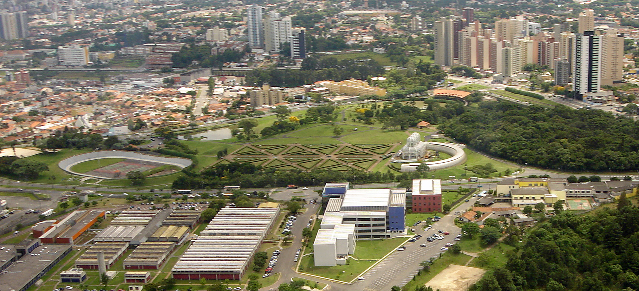 Aerial view Botanical Garden Curitiba, Brazil